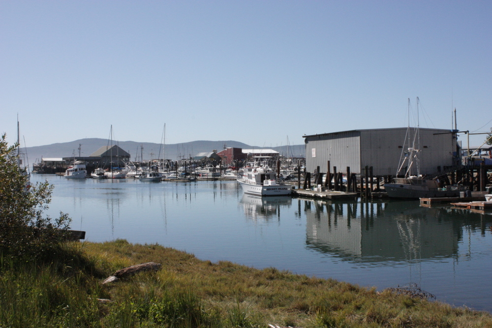 Bay at Garibaldi, Oregon, USA